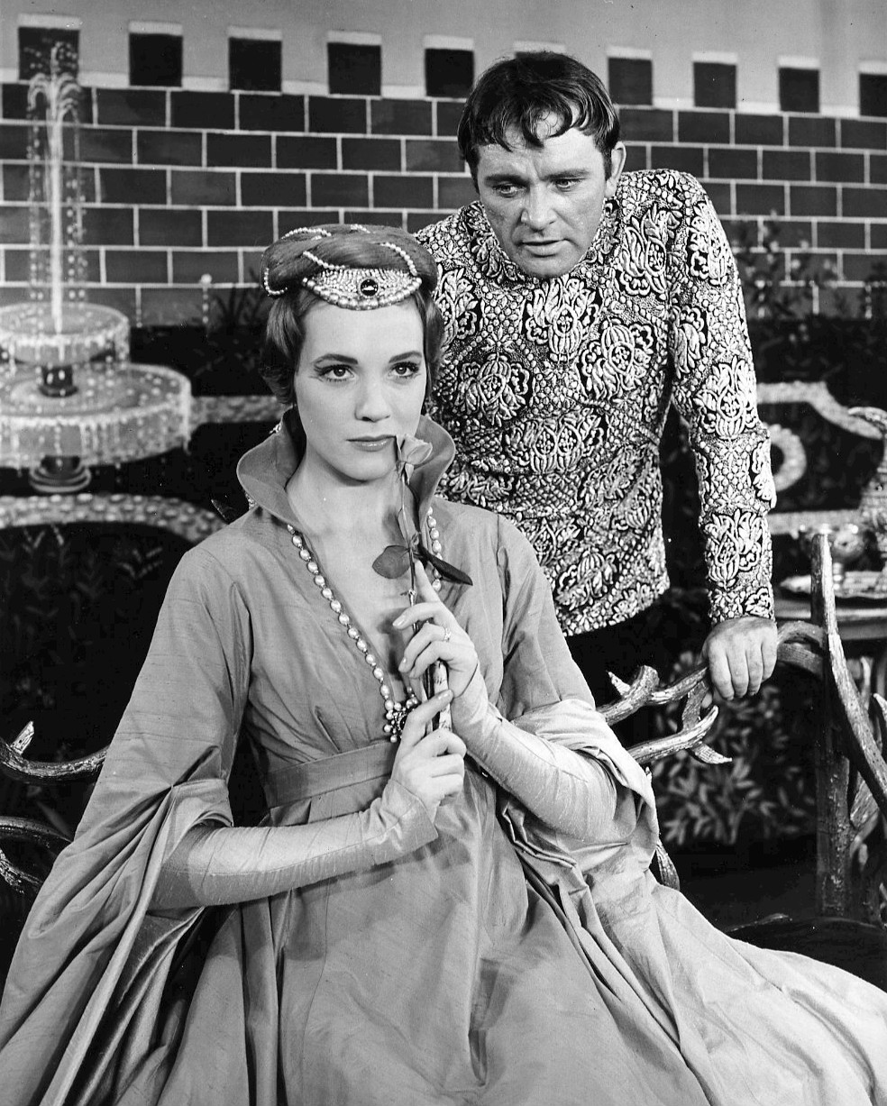 Scene from the original Broadway production of the musical Camelot. Pictured are Julie Andrews as Guenevere and Richard Burton as Arthur.